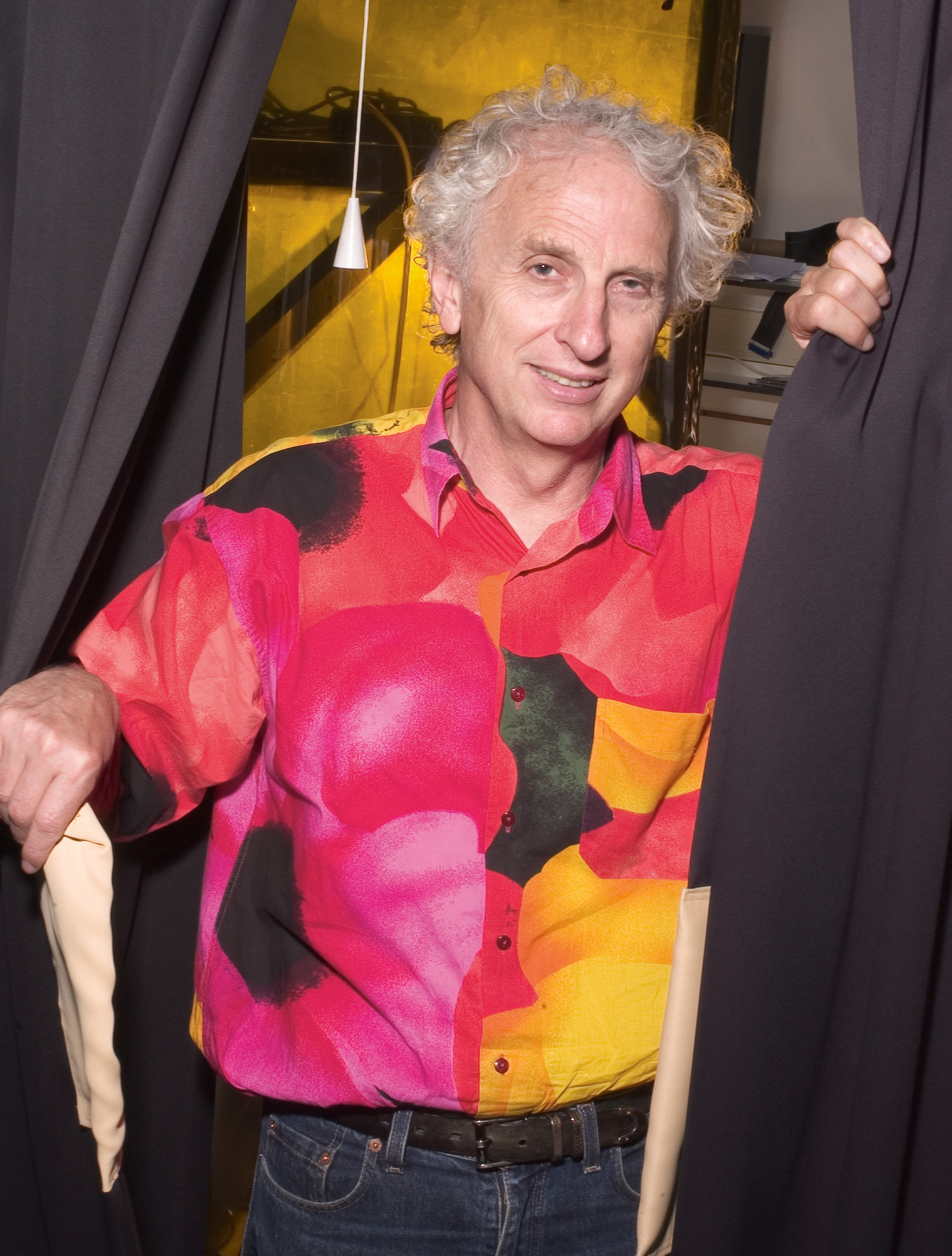 Ad Lagendijk (Spinoza Prize 2002)